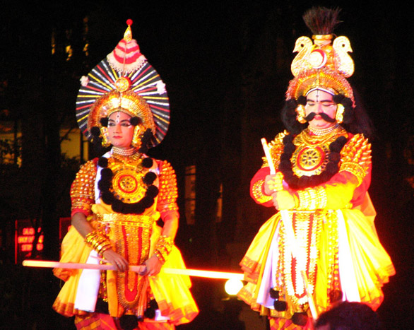 Deepak Shetty, Own